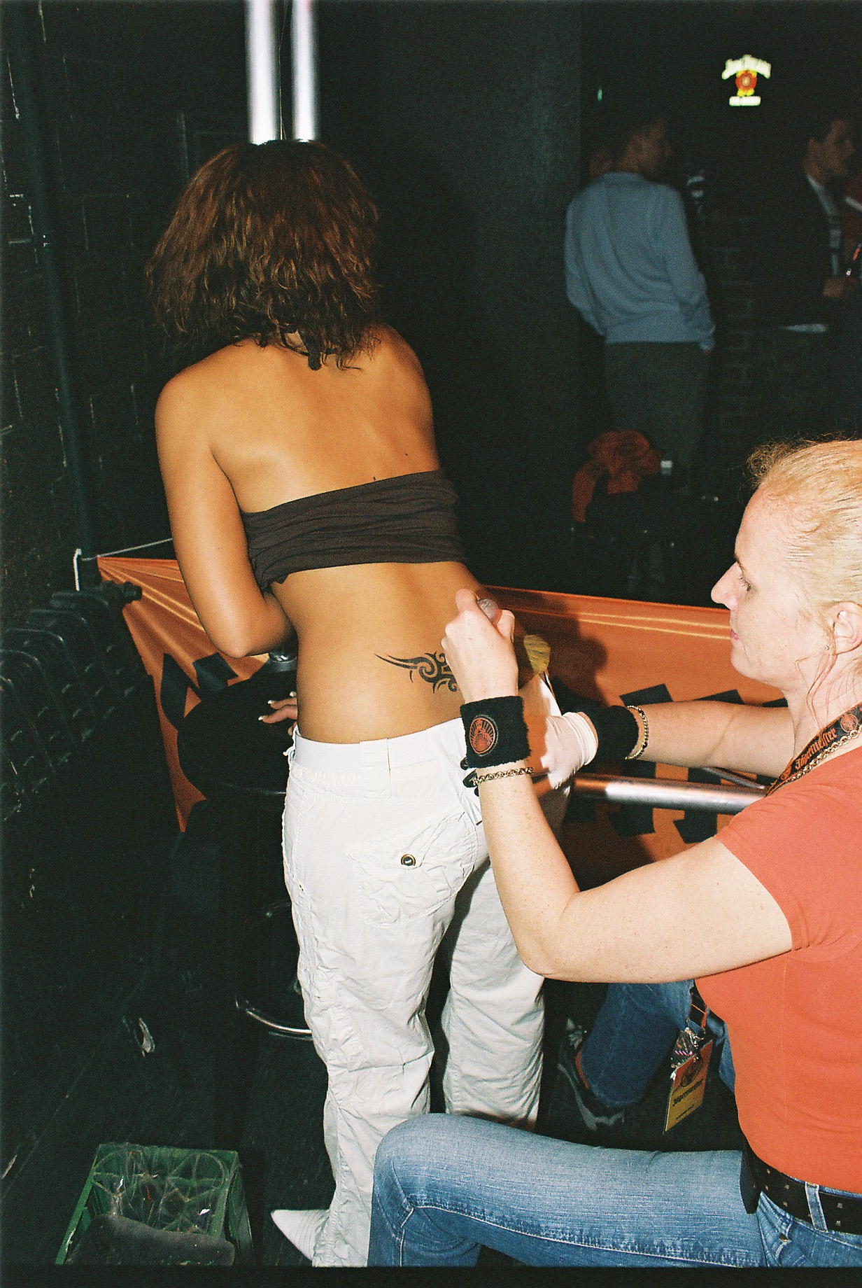 Summary